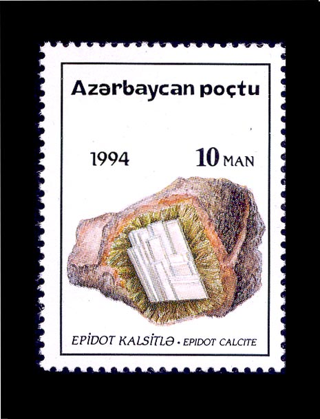 Stamp of Azerbaijan